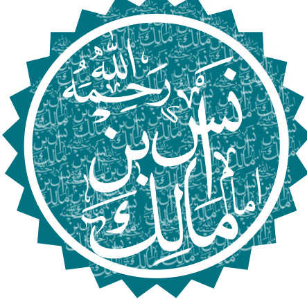 Calligraphy of Imam Malik`s name